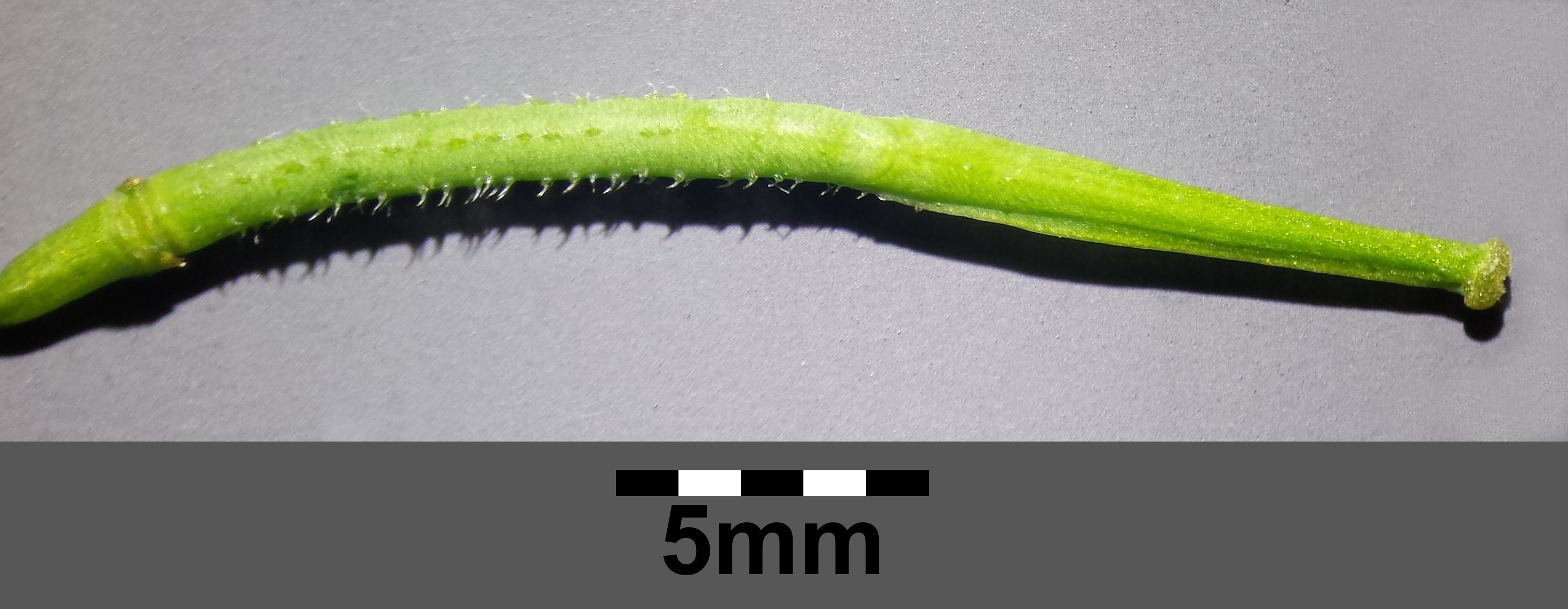 Silique Taxonym: Sinapis arvensis ss Fischer et al. EfÖLS 2008 ISBN 978-3-85474-187-9 Location: Neue Donau, district Korneuburg, Lower Austria - ca. 160 m a.s.l. Habitat: slope